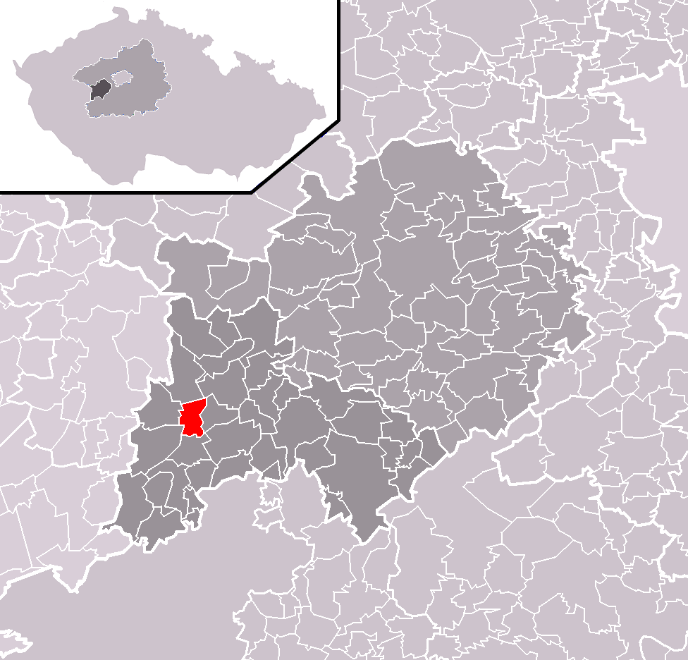 Location of Záluží municipality within Beroun District and administrative area of Hořovice as a Municipality with Extended Competence.